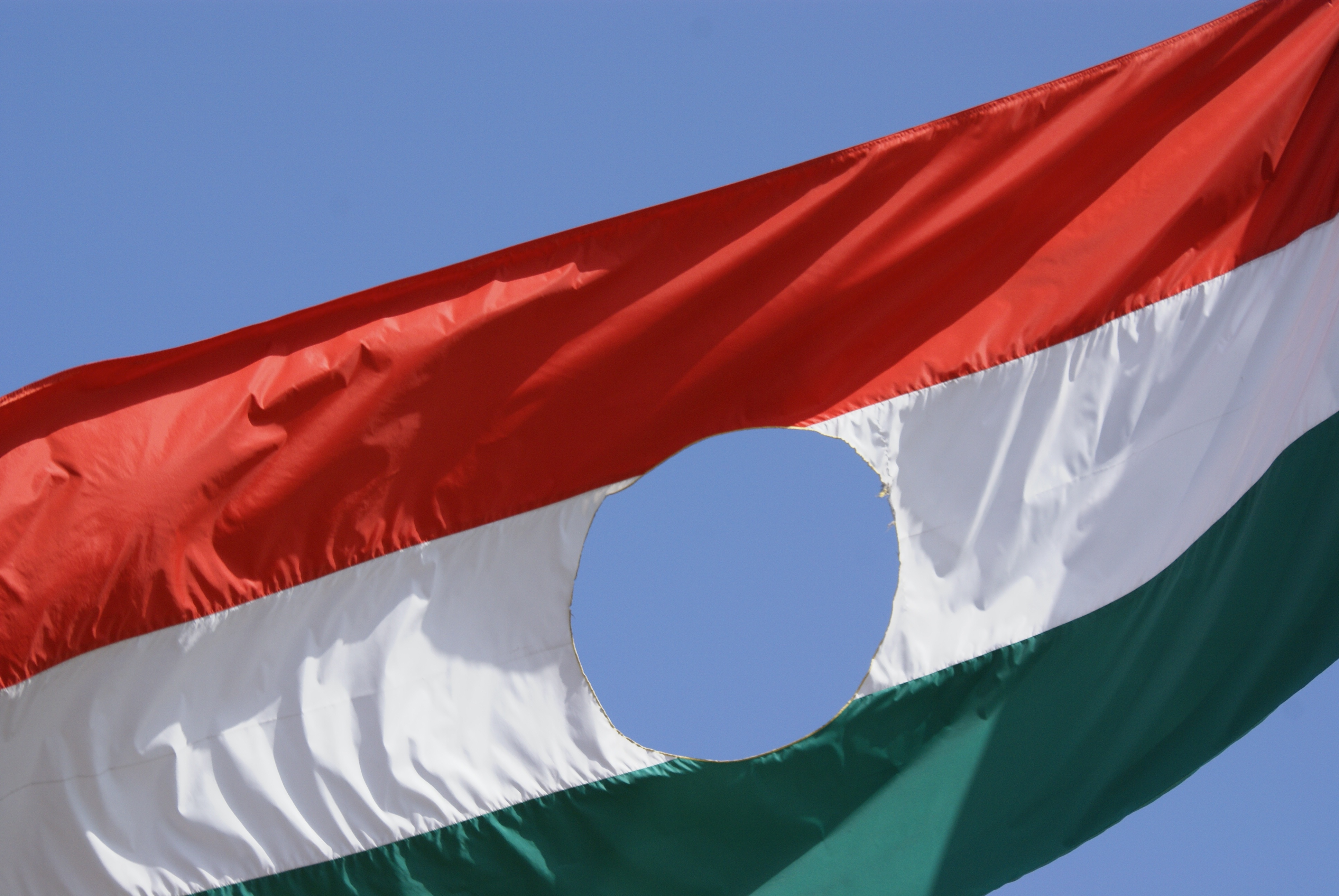 Hungarian flag with hole